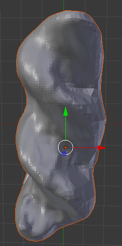 This is the cleaned up scan ready to be printed